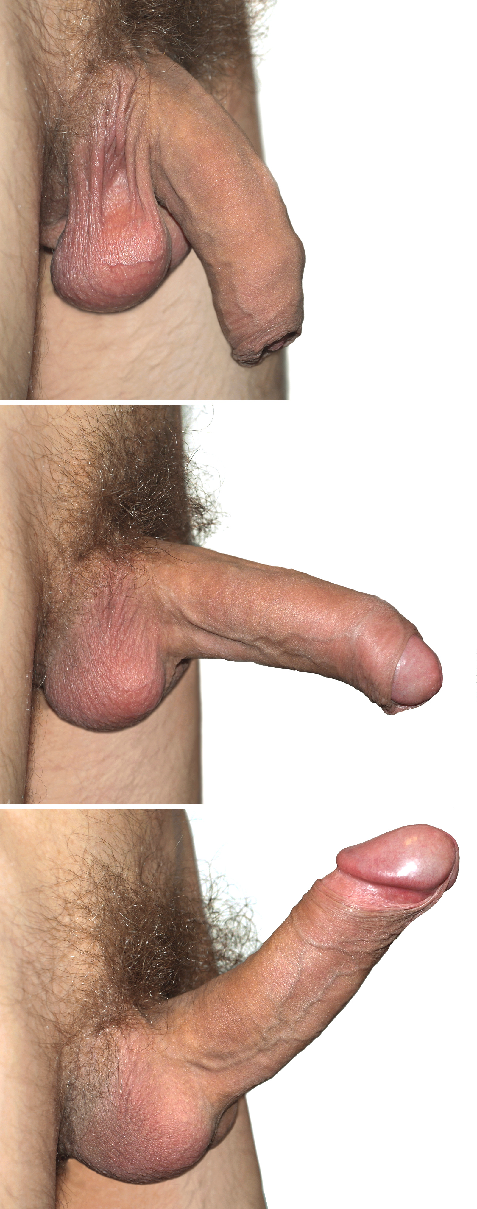 Erection development / Comparison of flaccid, semi-erect and erect penis with foreskin. Shaved genitalia of a Southern-European male, 30 years. Penis length: flaccid approx. 9.5 cm = 3.7 in, erect approx. 16.3 cm = 6.4 in, measured upside Penis width: flaccid approx. 3 cm = 1.2 in , erect approx. 3.8 cm = 1.5 in Penis circumference: flaccid approx. 9.5 cm = 3.7 in, erect approx. 12.3 cm = 4.8 in Read my comments here: User:123GLGL